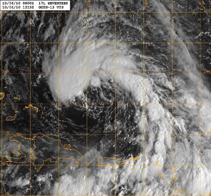 Subtropical Depression Seventeen north of Puerto Rico at 0600 UTC October 6. This system eventually strengthened into Hurricane Otto of the 2010 Atlantic hurricane season.